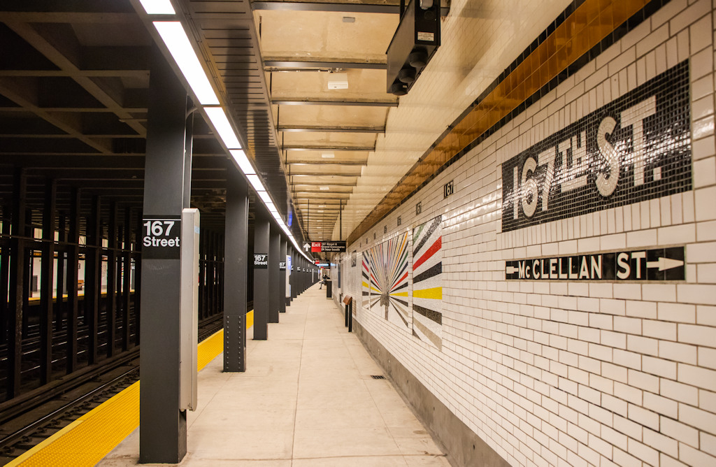 Renovated East 167th Street Station on the IND Grand Concourse Line.